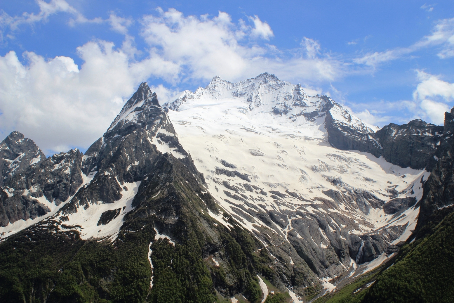 2016 Dombay-Ulgen Mountain, Greater Caucasus, Abkhazia